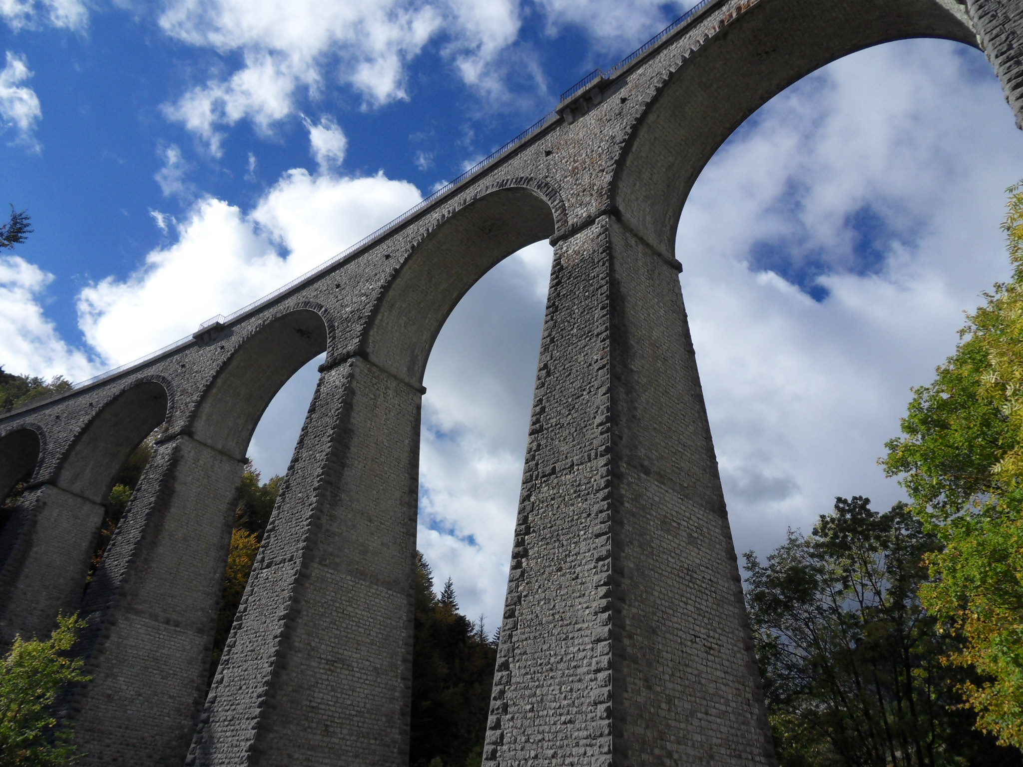 Train viaduct of the line Grenoble - Veynes, over the river d'Orbannes, close to the station Clelles-Mens.